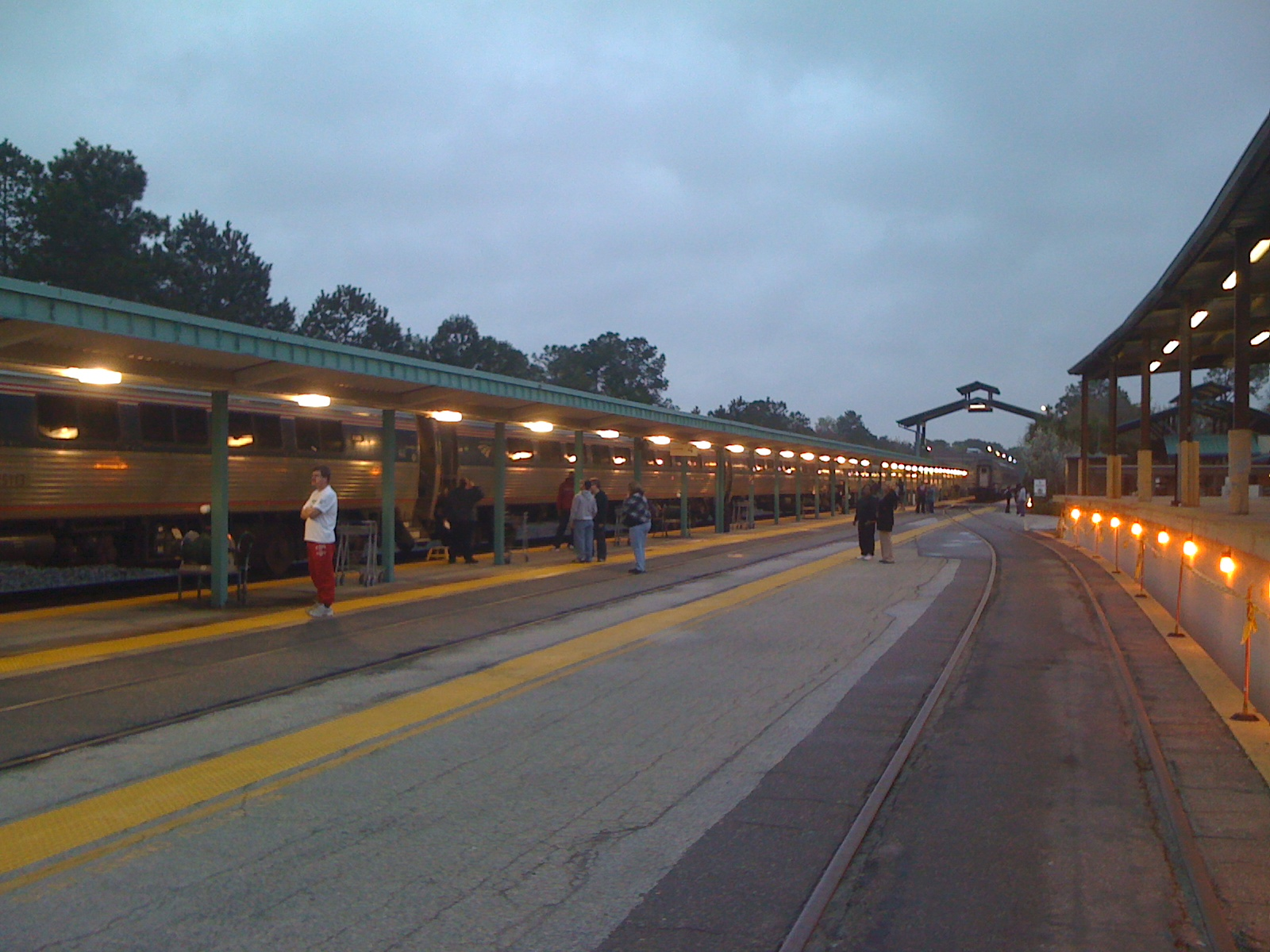 Amtrak station Jacksonville, Florida. Trackside view of platform and passenger cars on Silver Star train #91 headed to Miami.